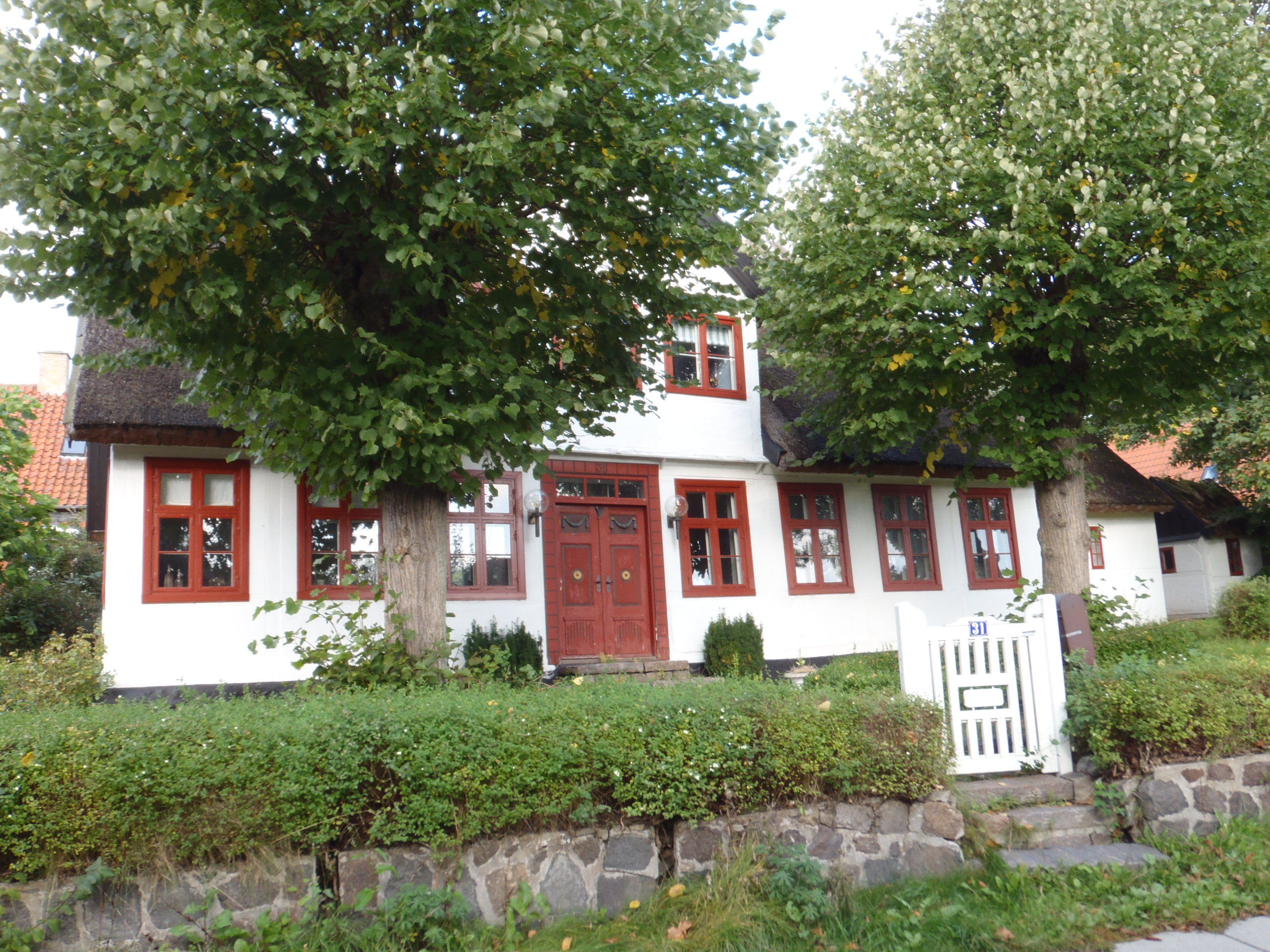 House of Støvlet Kathrine, Gammel Lundtoftevej 31, Bondebyen, Kongens LyngbyDansk: Støvlet Kathrines hus, Gammel Lundtoftevej 31, Bondebyen, Kongens Lyngby